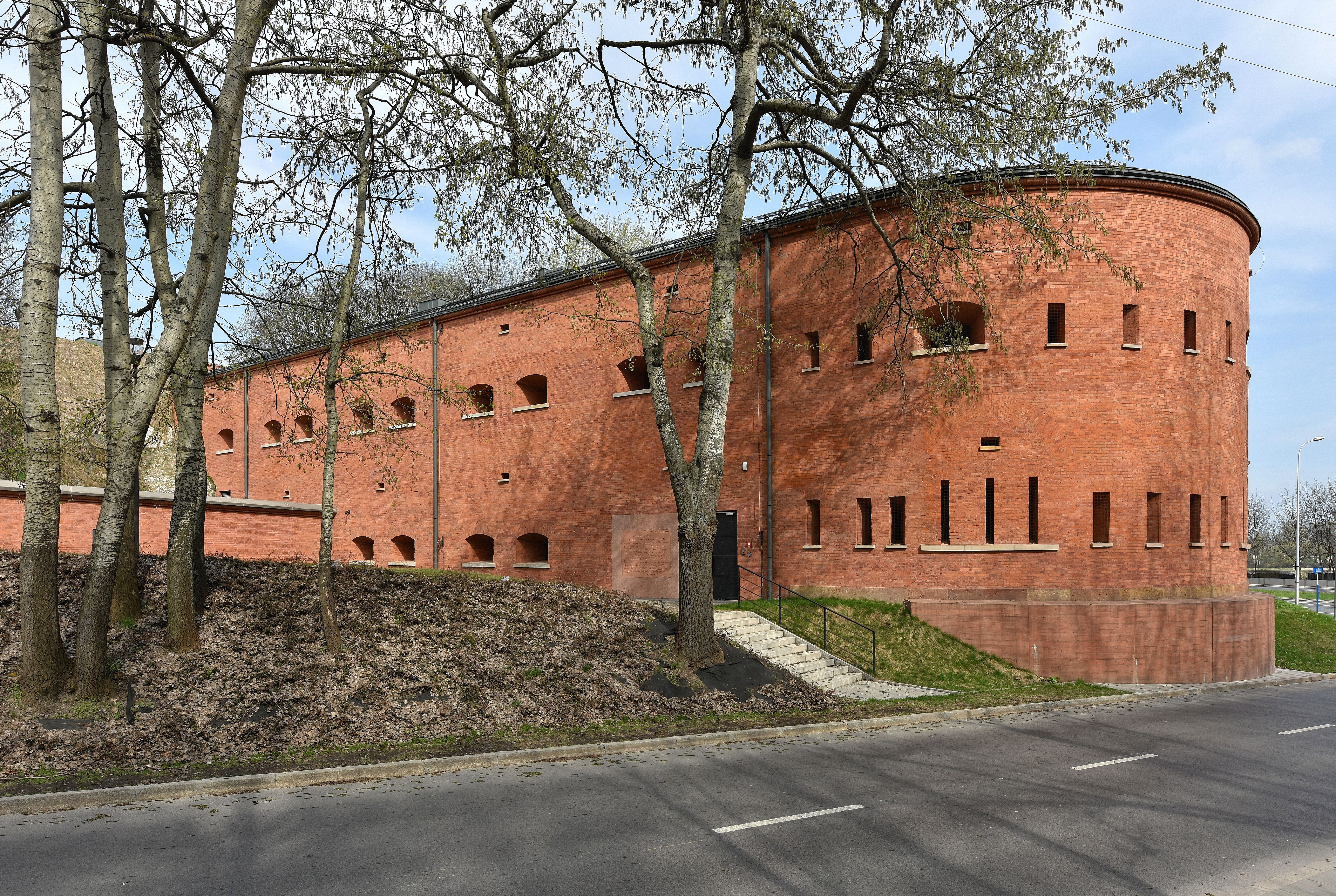 Southern caponier of the Warsaw Citadel. Seat of the Katyn Museum